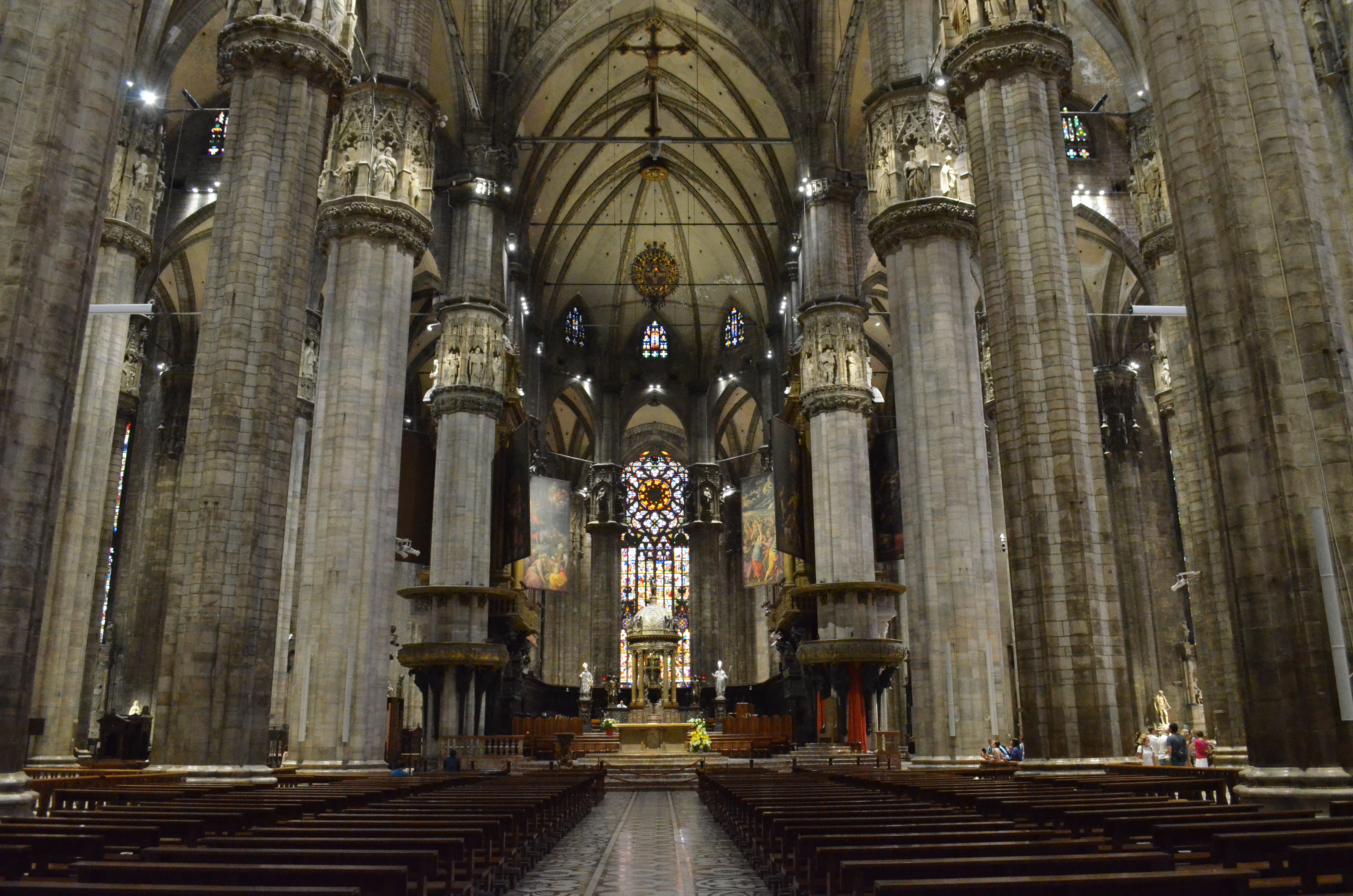 Interior of the Duomo (Milan)